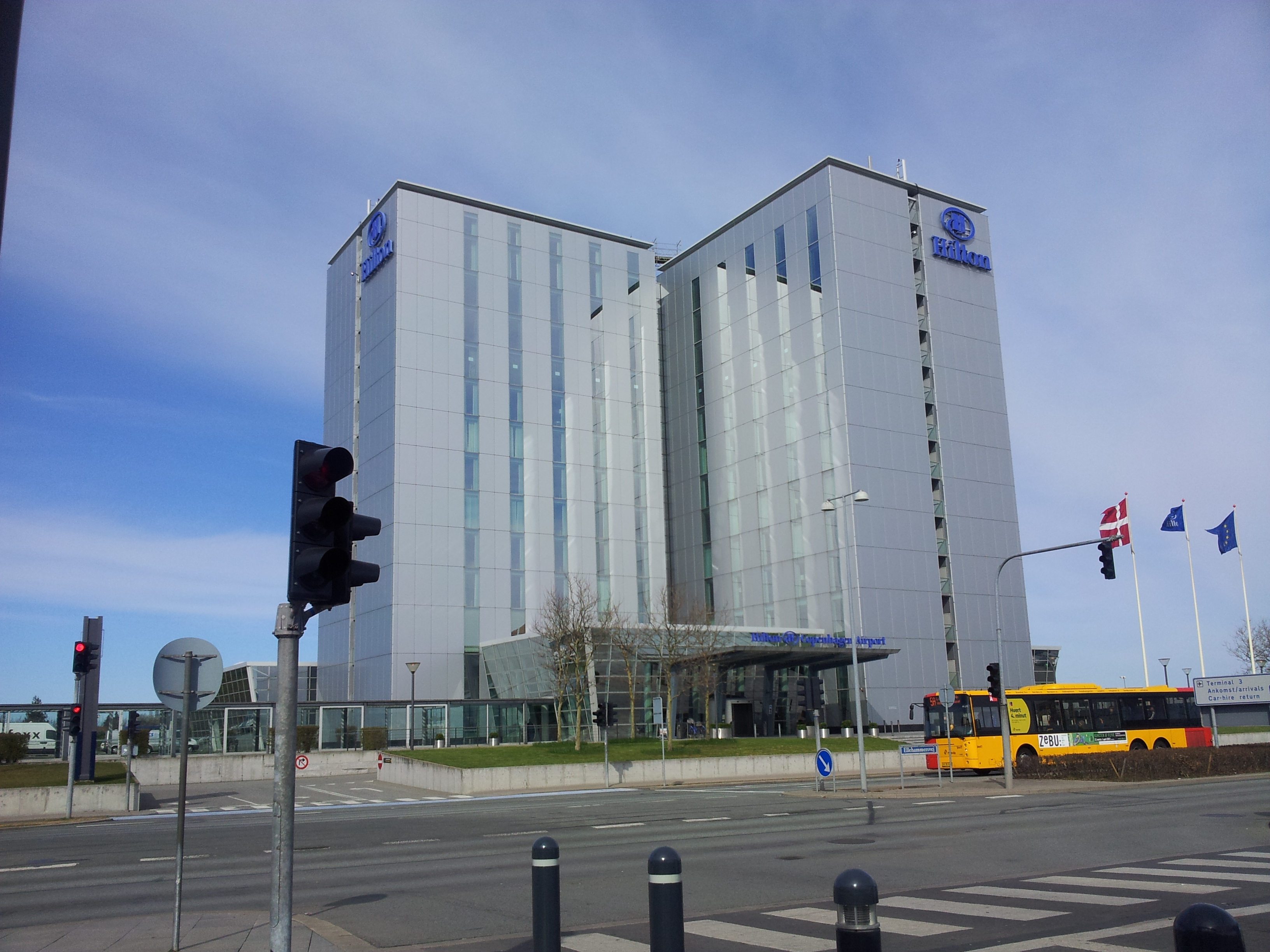 The Hilton Hotel Copenhagen